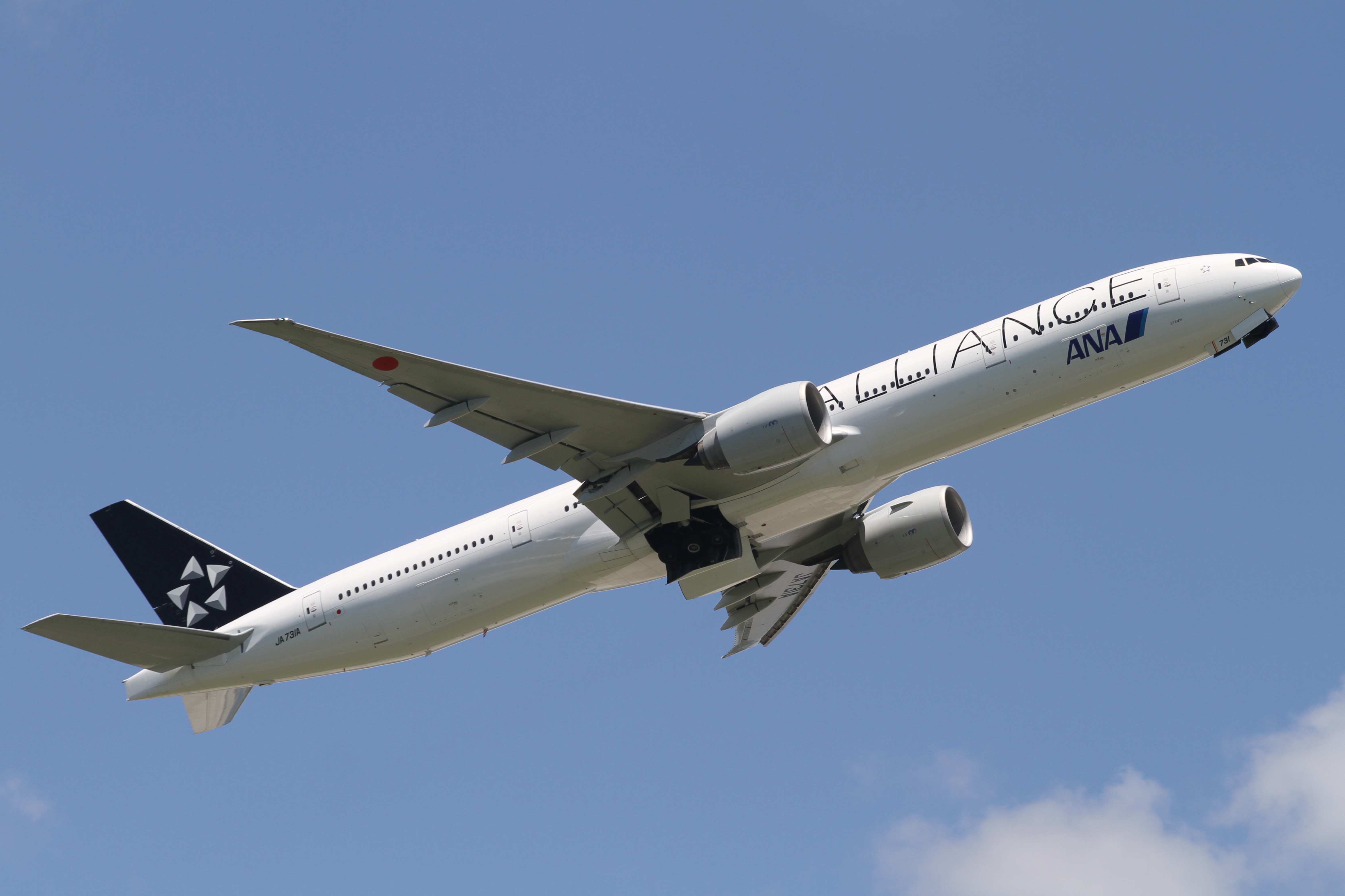 Narita International Airport, Boeing 777-381/ER, c/n:28281, All Nippon Airways, Star Alliance c/s